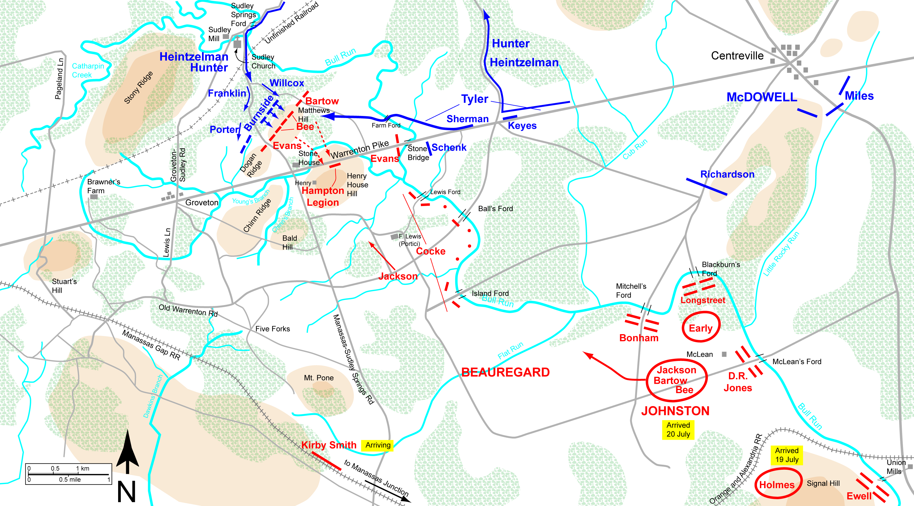 Partial map of the First Battle of Bull Run of the American Civil War.